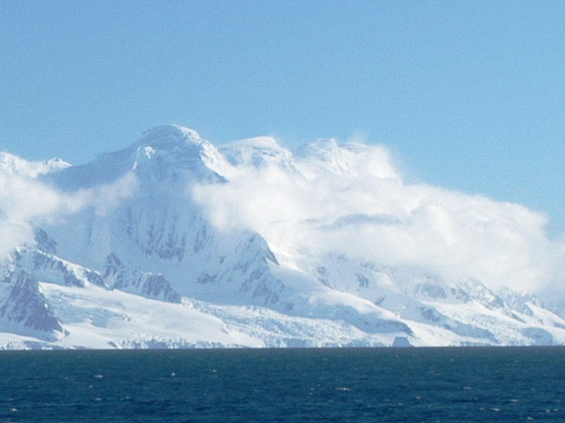 Evlogi Peak (in the middle), Smith Island, South Shetland Islands. Derivative work, fragment of the photo of Smith Island, Antarctica, taken from deck of R/V Lawrence M. Gould by Cfrohlich, Cliff Frohlich, Univ. Texas Austin